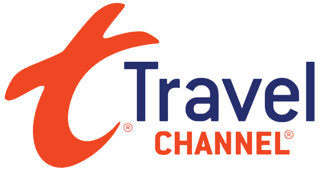 Travel Channel logo, used from 2010 to 2011